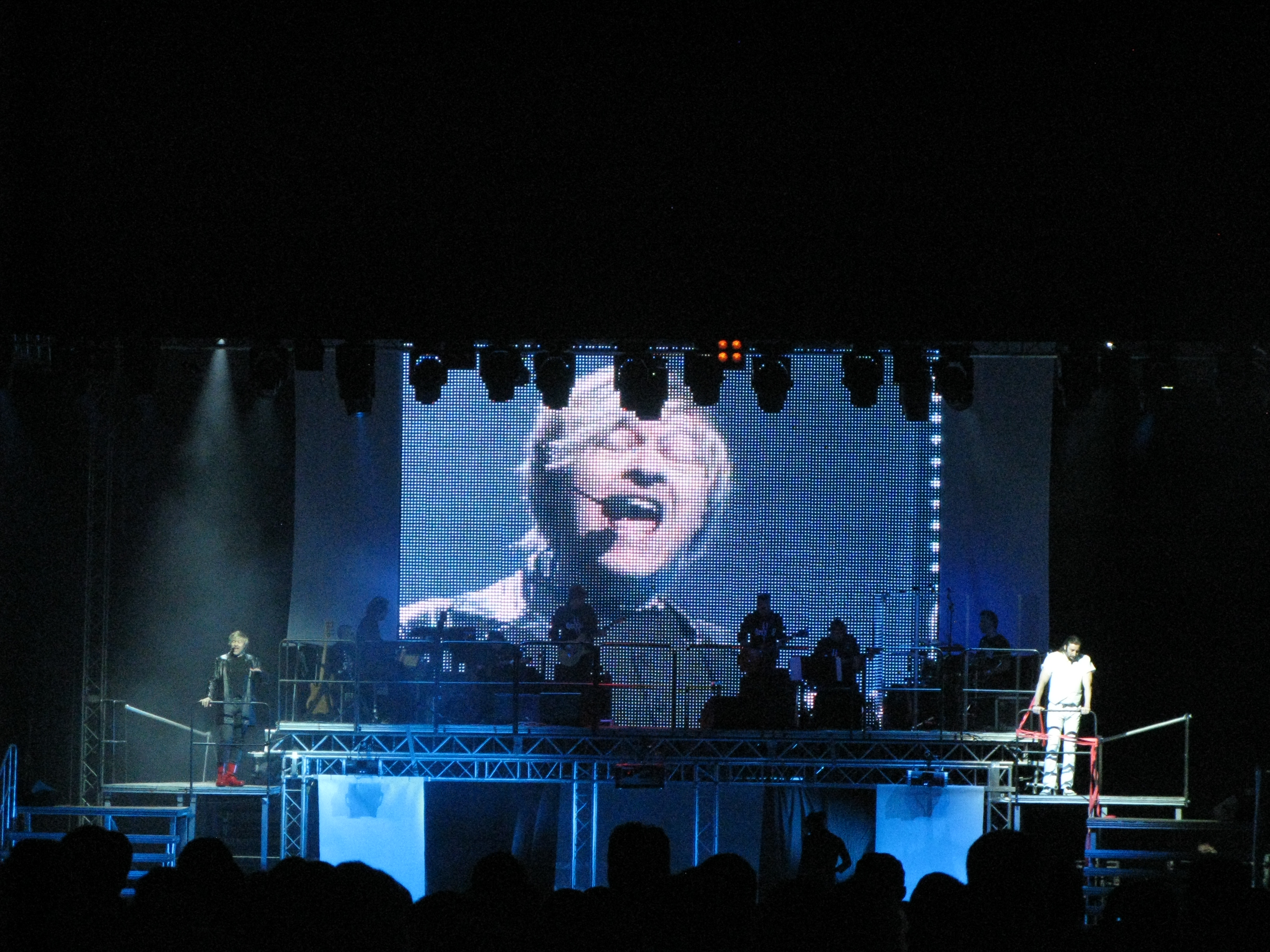 Artur Gadowski jako Władysław Jagiełło w przedstawieniu rock opery Krzyżacy w Fosie Zamkowej w Toruniu